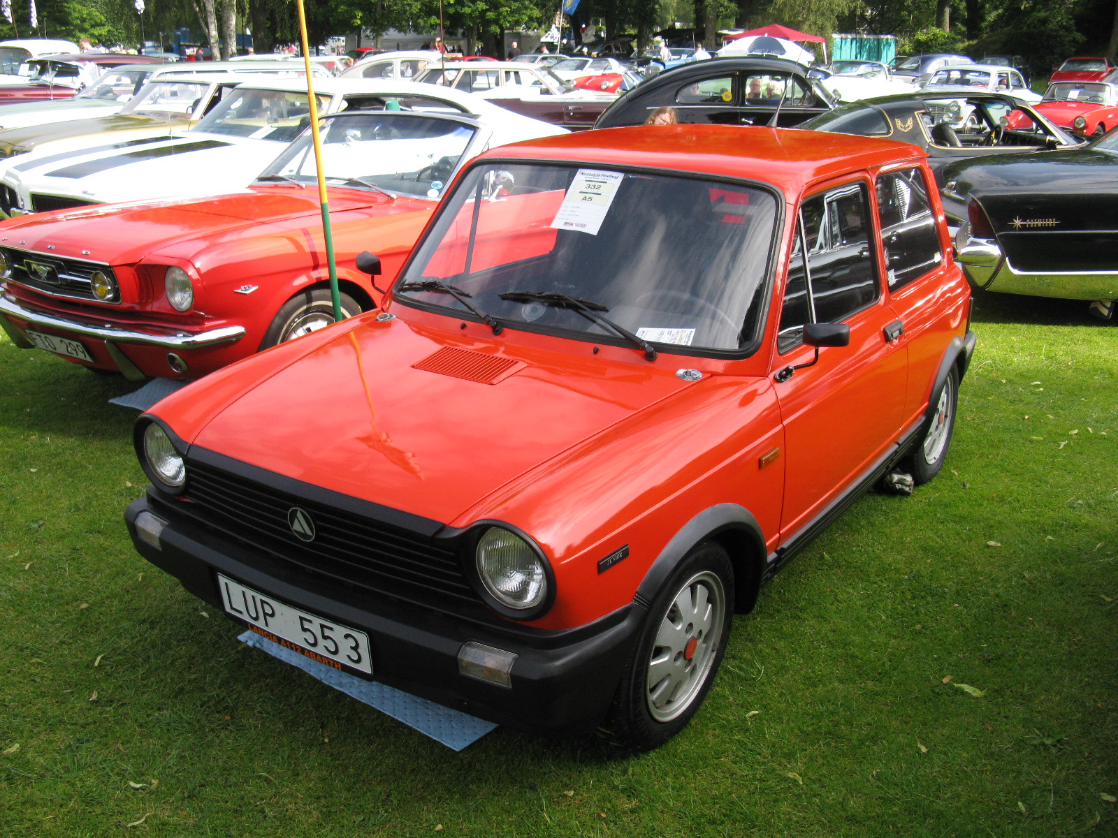 1984 Lancia A112 Junior (sixth series) with Abarth alloys fitted. Chassis number 112B0001464805. This car has the 48cv 965cc engine unlike continental Juniors, as the smaller engine was not available in a version which met Swedish (nor Swiss) emissions regulations.